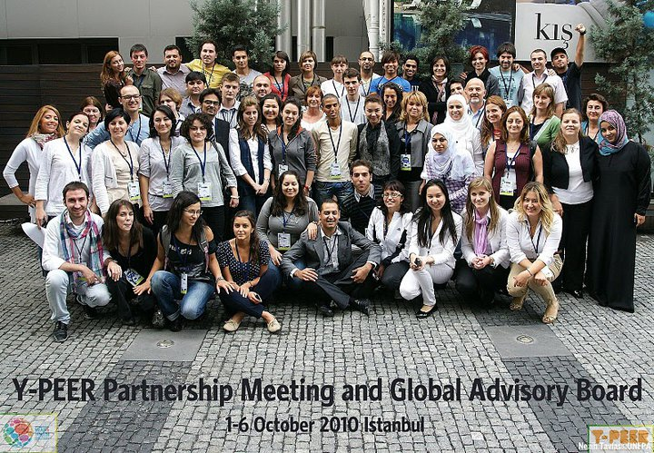 This is a photo from Y-PEER Global Advisory Board`s meeting, which took place in Instanbul,Turkey,from 1-6 october of 2010.